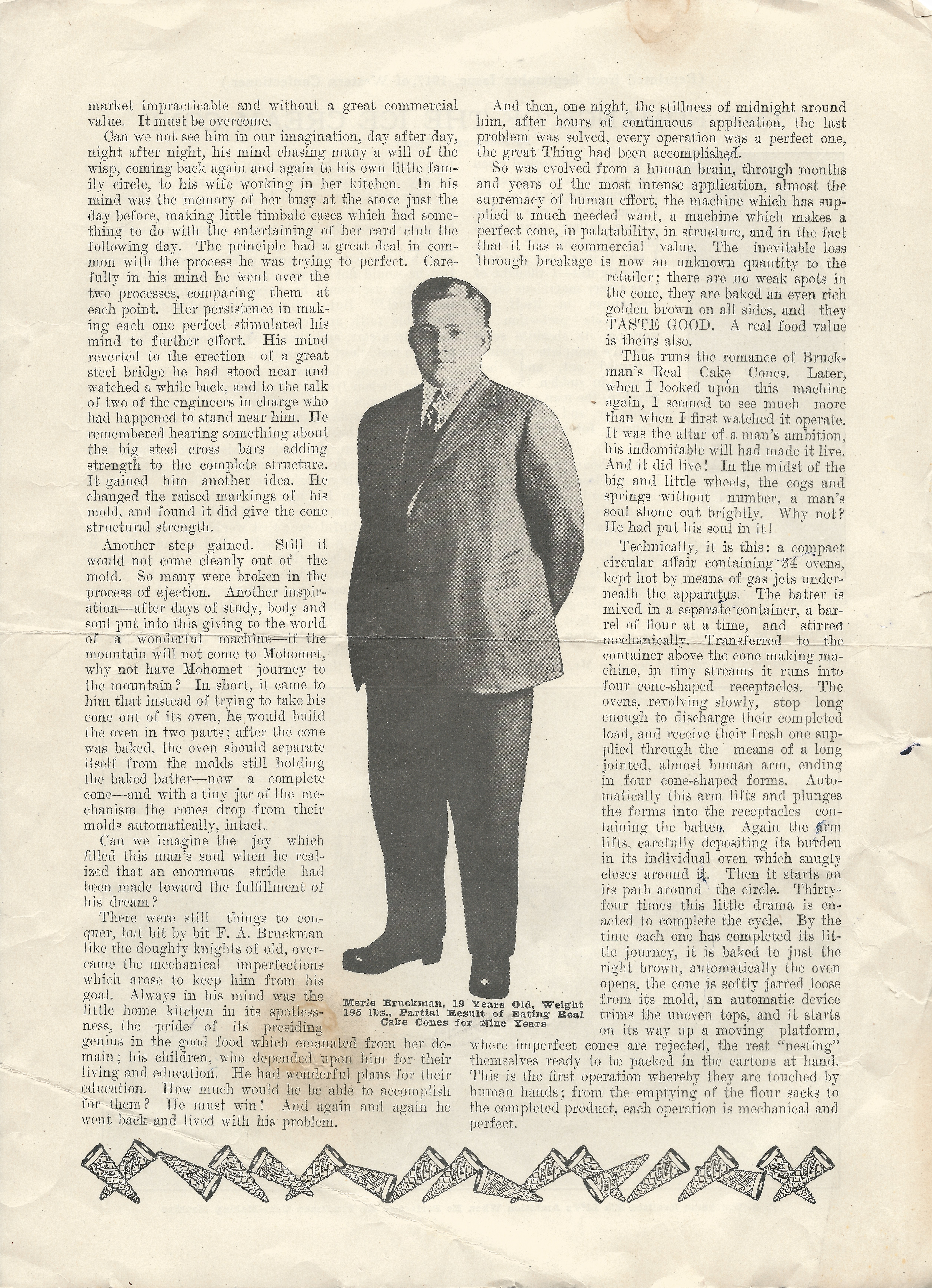 Page 2 of 2 of September 1917 article in Western Confectioner describing inventor/entrepreneur Frederick Bruckman's "Real Cake Ice Cream Cone" machine. Ice cream cone